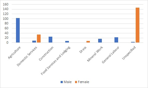 Male and female occupational structure in Birling, 1881, according to census records.